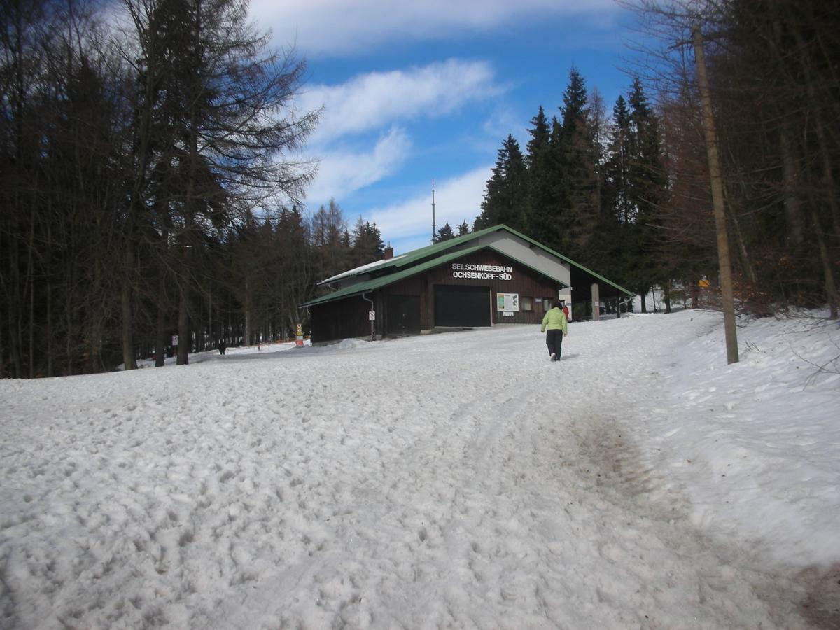 Valley station of the Ochsenkopf South chairlift on the Ochsenkopf in the Fichtelgebirge mountains of Bavaria, Germany